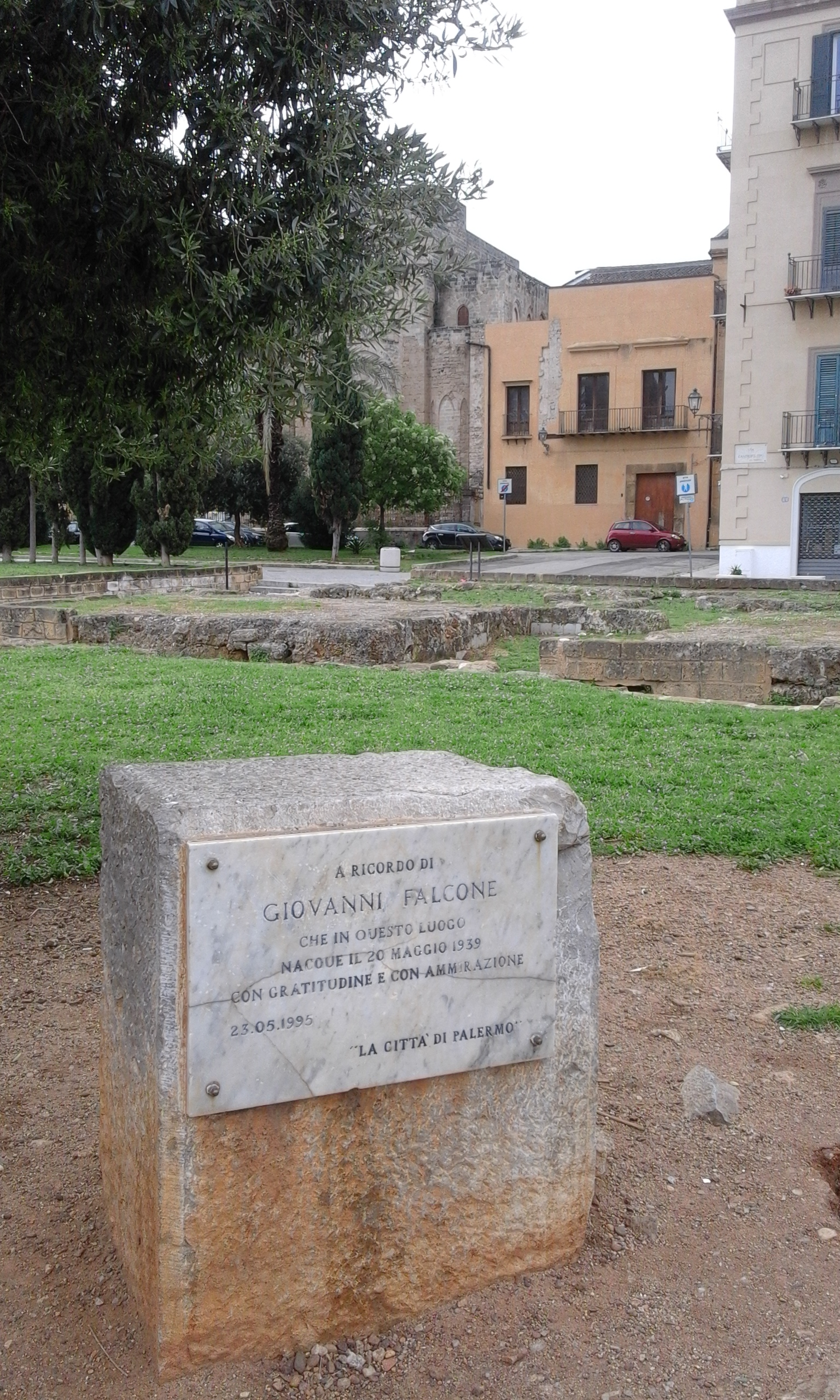 Memorial stonne for Giovanni Falcone on Piazza Magione in Palermo.